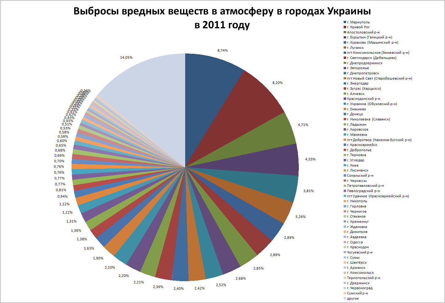 According to the Express Editions of regional statistical offices of Ukraine in 2011